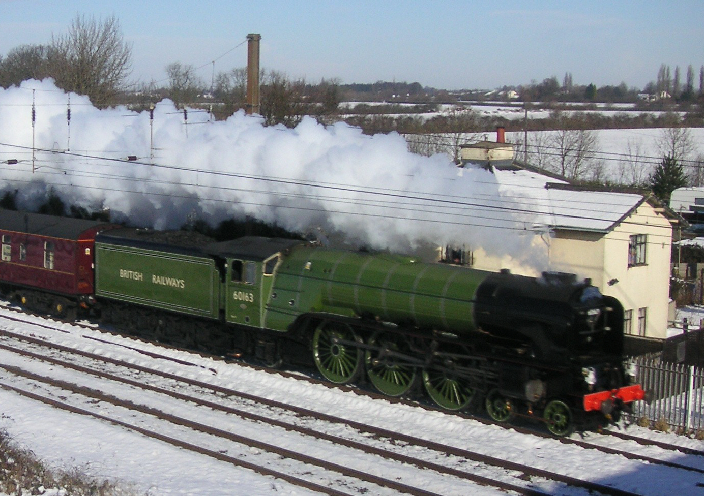 Brand new steam locomotive 60163 Tornado on her first main line passenger journey to London, The Talisman, 7 February 2009. Original caption as used by Wikipedia uploader: Tornado at speed on her first run to London 4 miles north of Peterborough on 7 Feb 2009